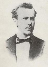 Portrait of French philosopher Jules Lagneau (1851 † 1894).